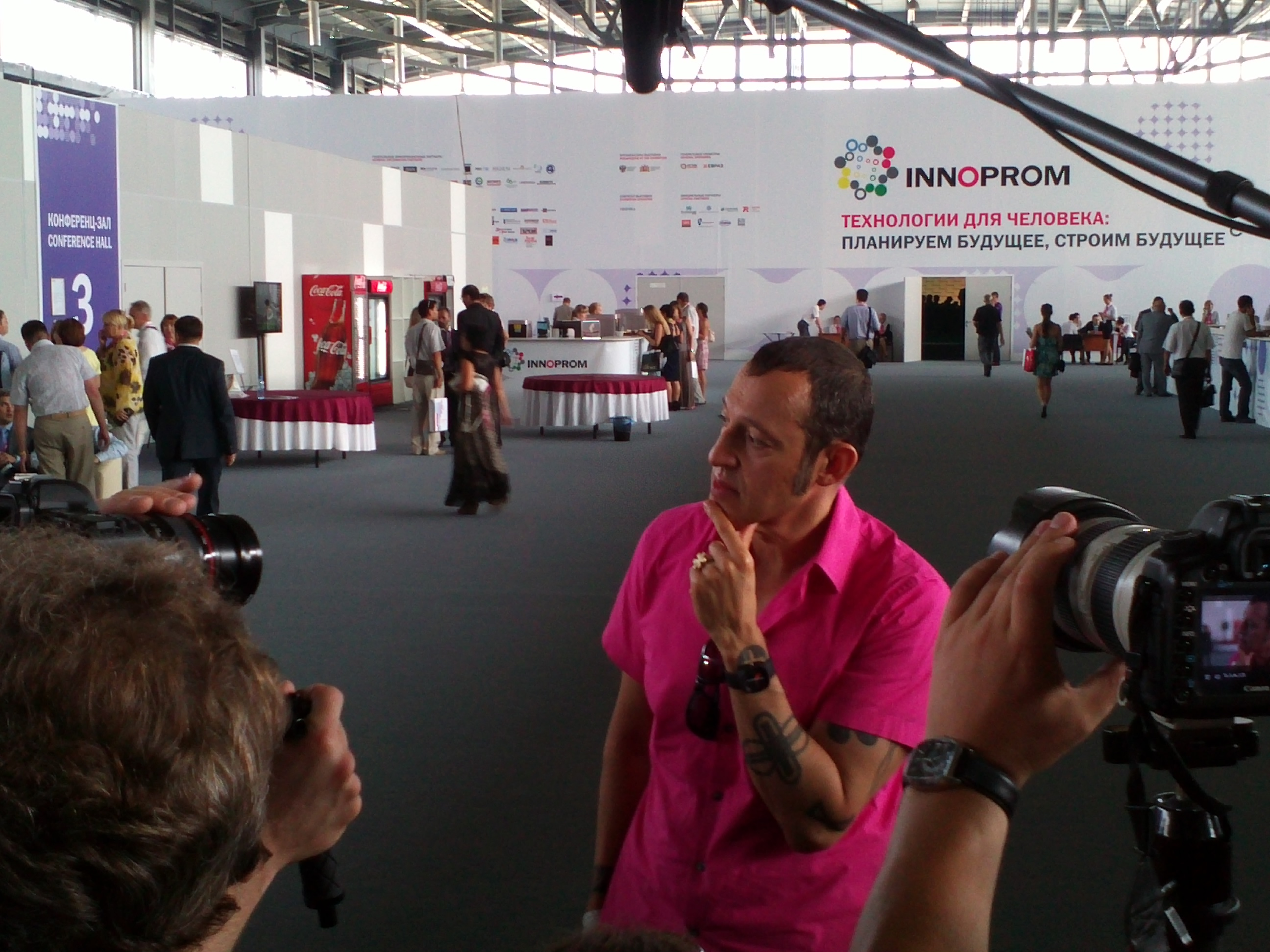 Karim Rashid talks to press at Innoprom-2012 in Ekaterinburg